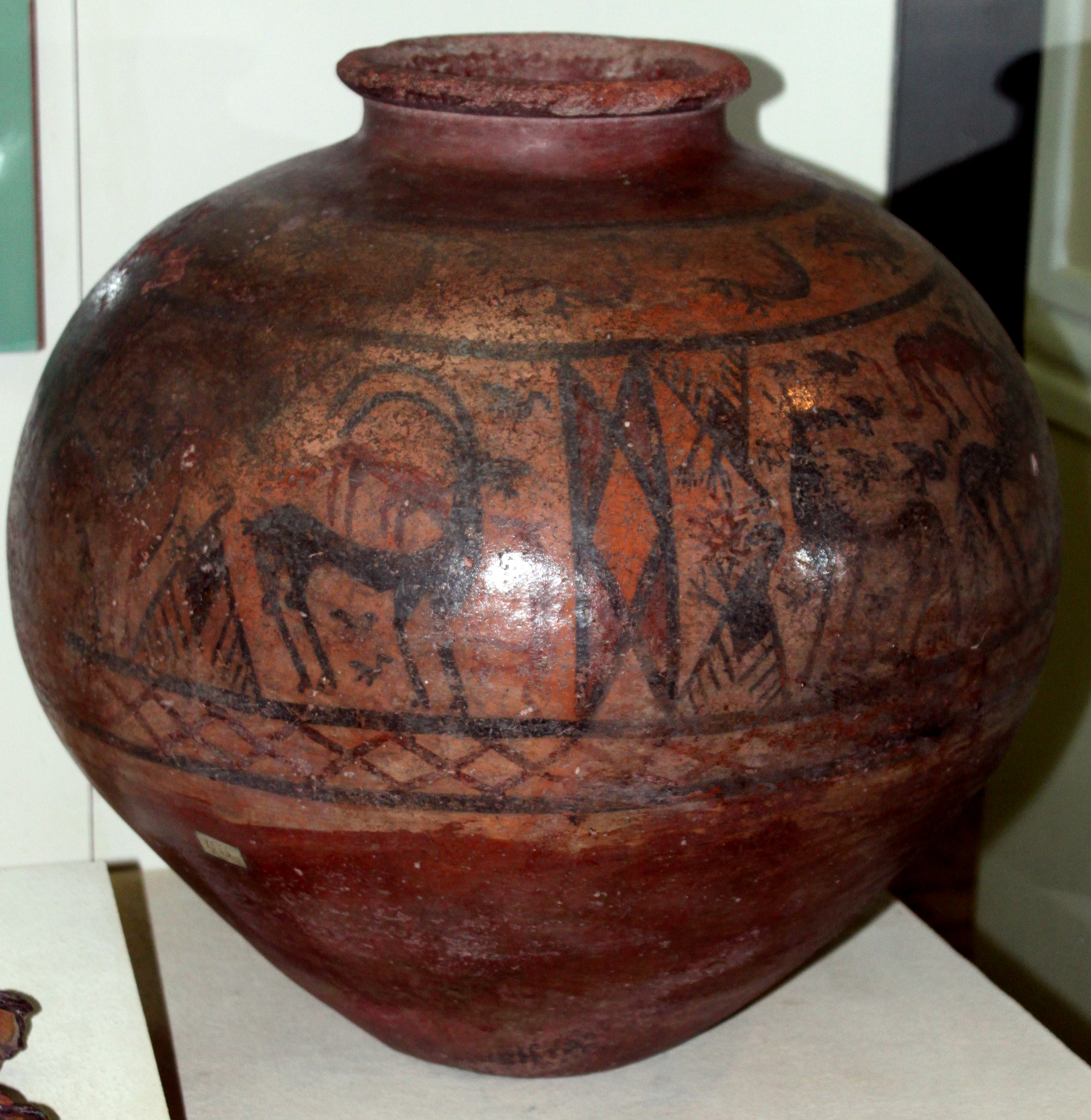 Deer Painted vessel from Shakhtakhti